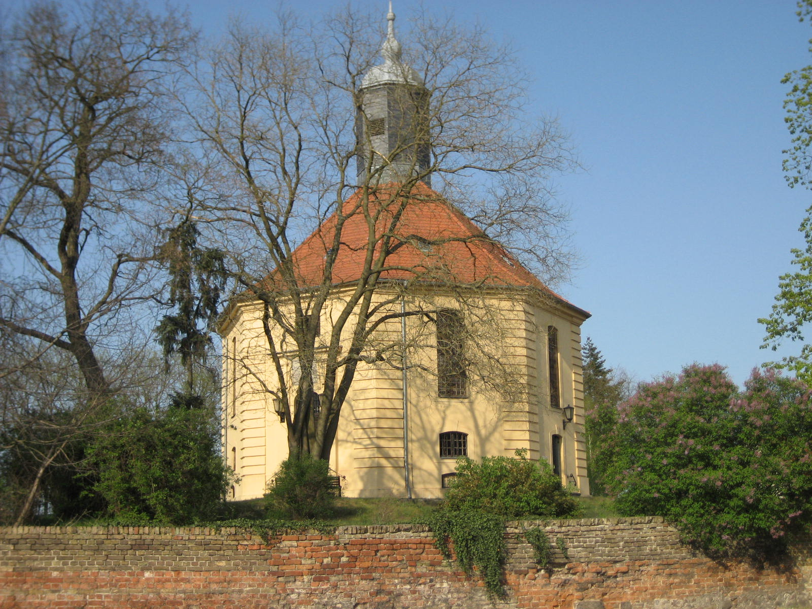 Church of Golzow, Brandenburg, Germany